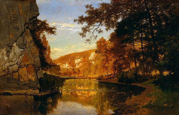 On the river Lesse, painting (ca. 1883) by Joseph Quineaux